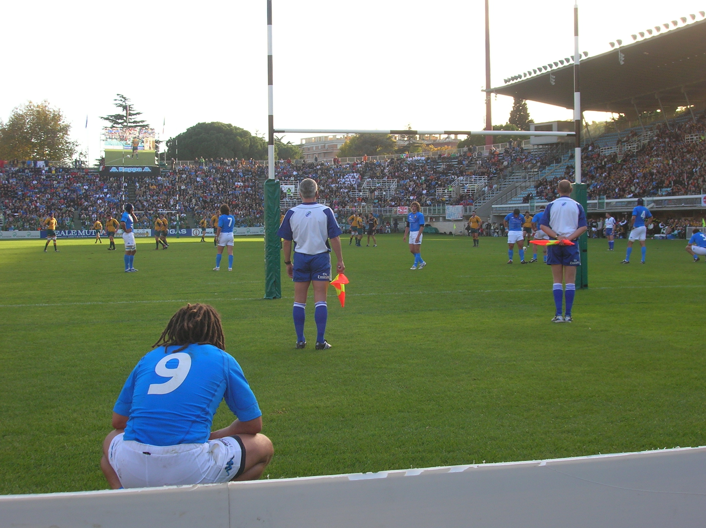 Rugby union test match Italy 18 - 25 Australia at the Stadio Flaminio in Rome; on the foreground the Italian scrum half Paul Griffen